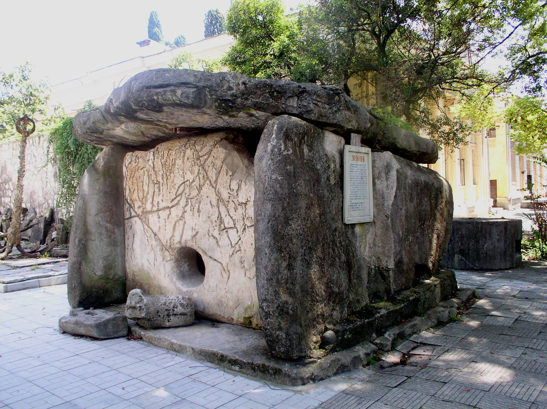 An ancient Abkhazian dolmen (moved to the court of the Sukhumi Museum)